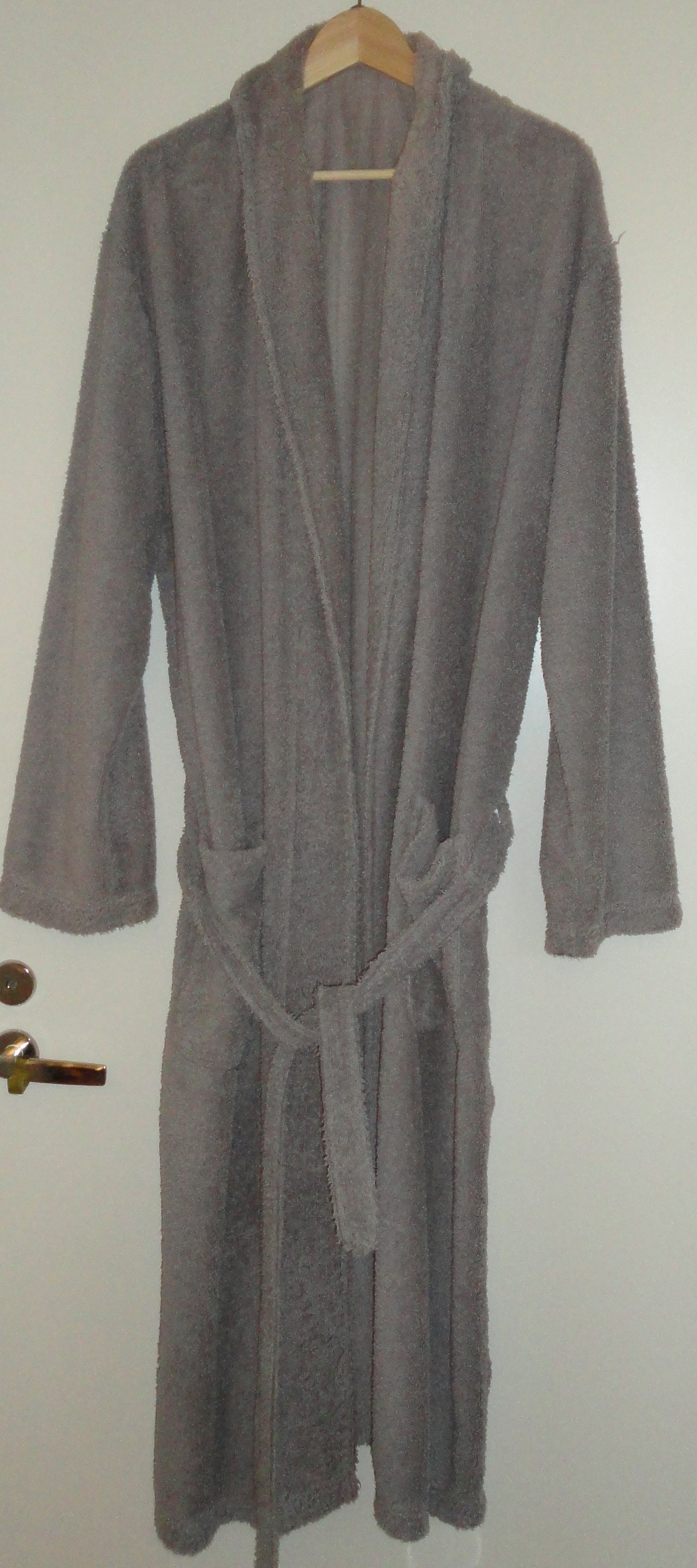 Crey bathrope.